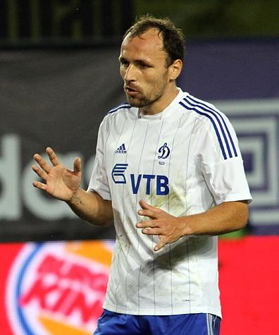 Gordon Schildenfeld playing for FC Dynamo Moscow in 2012.